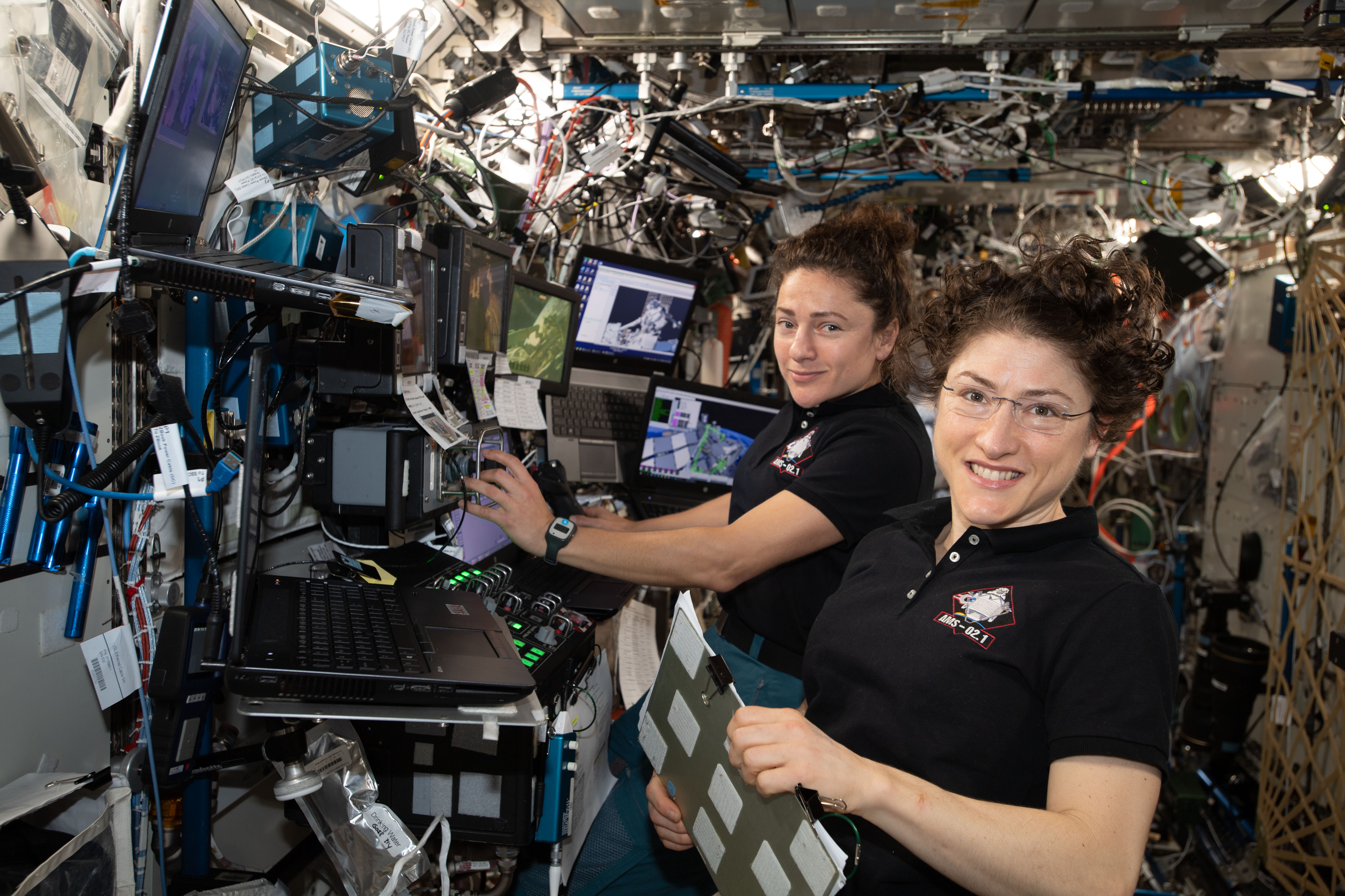 NASA astronauts (from left) Jessica Meir and Christina Koch are at the robotics workstation controlling the Canadarm2 robotic arm to support the first spacewalk to repair the Alpha Magnetic Spectrometer (AMS), the International Space Station's cosmic particle detector. Astronauts Luca Parmitano of ESA (European Space Agency) and Andrew Morgan of NASA worked six hours and 39 minutes in the vacuum of space during the first of at least four planned AMS repair spacewalks.